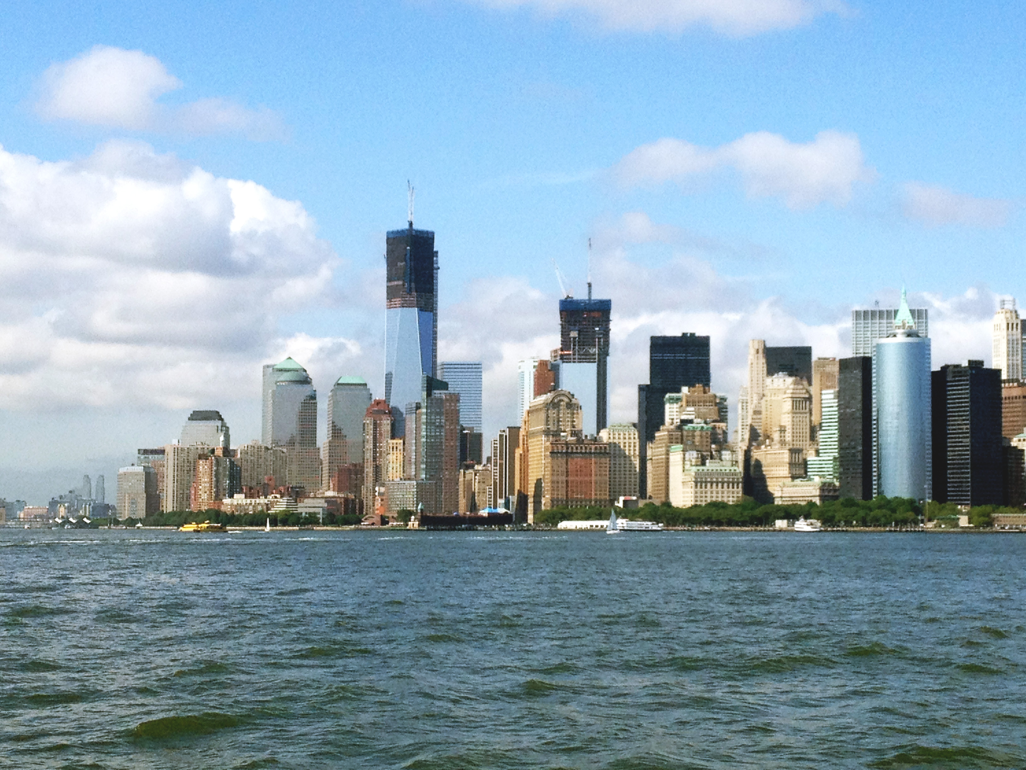 1 WTC under construction, pictured from the Staten Island Ferry en route across the Upper New York Bay